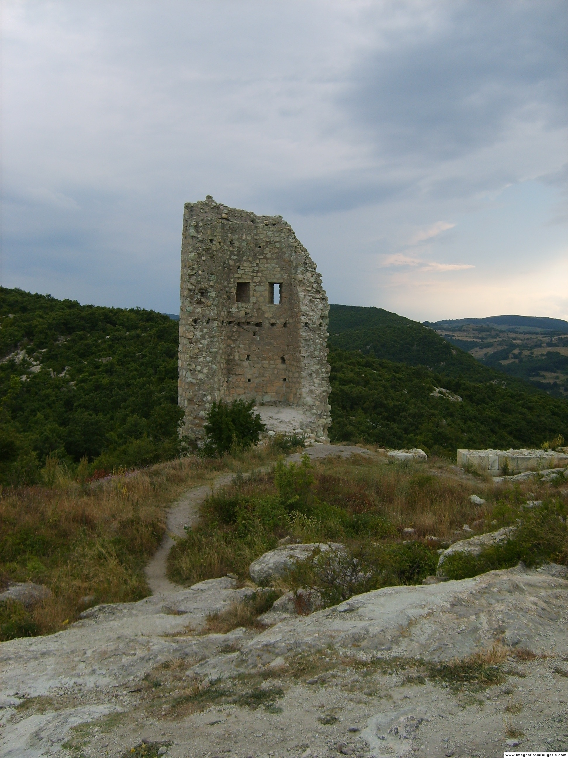 Perperikon - ancient Thracian town in the Rhodope Mountains